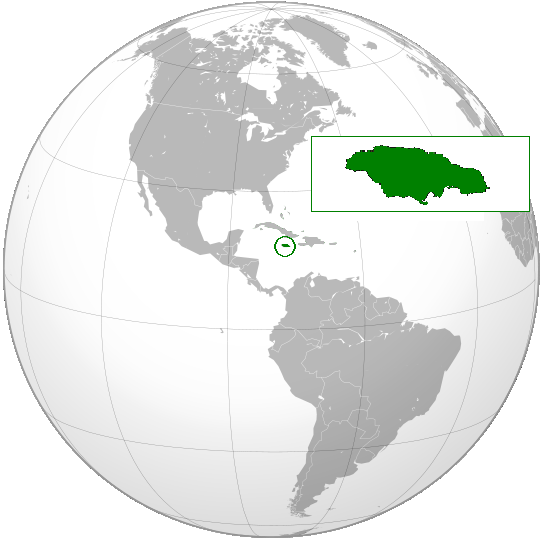 Orthographic projection of Jamaica.